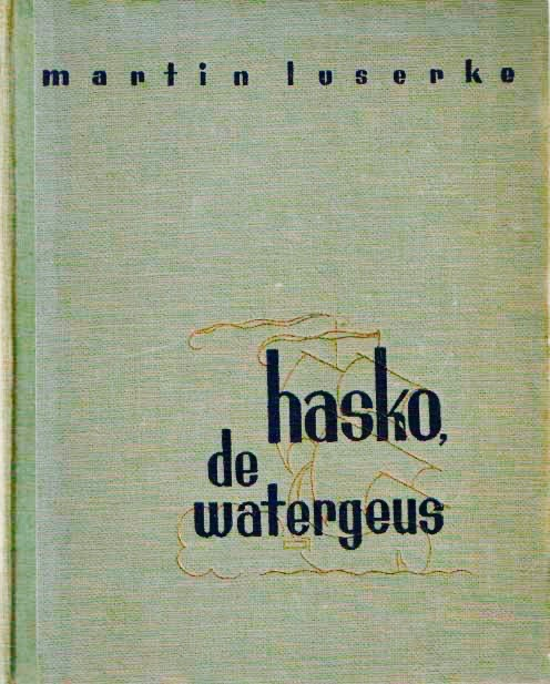 Book cover of the dutch version of the novel 'Hasko' by German writer Martin Luserke (1880–1968) from 1940